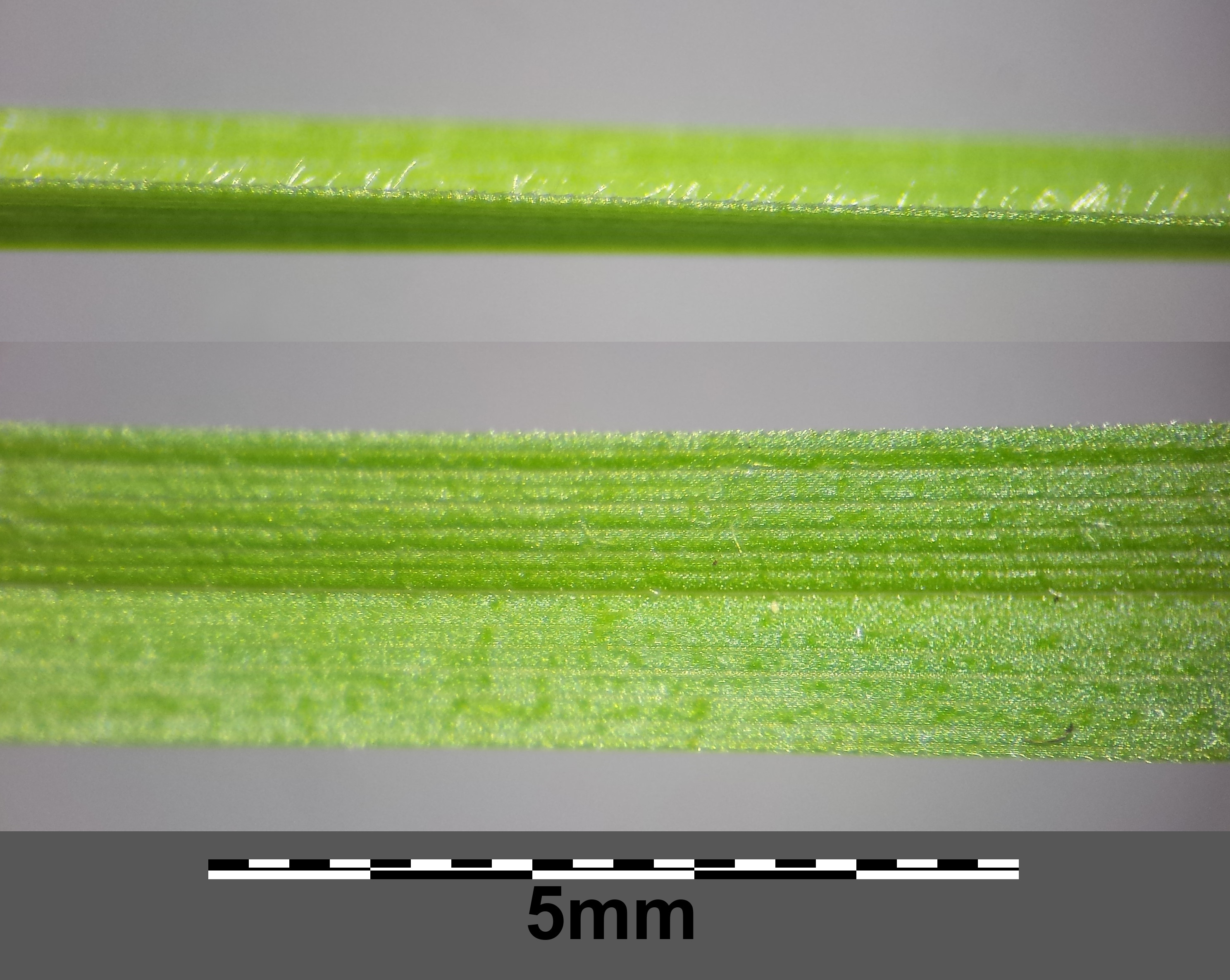 Sparsely hairy top side of leaf Taxonym: Carex montana ss Fischer et al. EfÖLS 2008 ISBN 978-3-85474-187-9 Location: Rohrwald, district Korneuburg, Lower Austria - ca. 320 m a.s.l. Habitat: Carpinion betuli